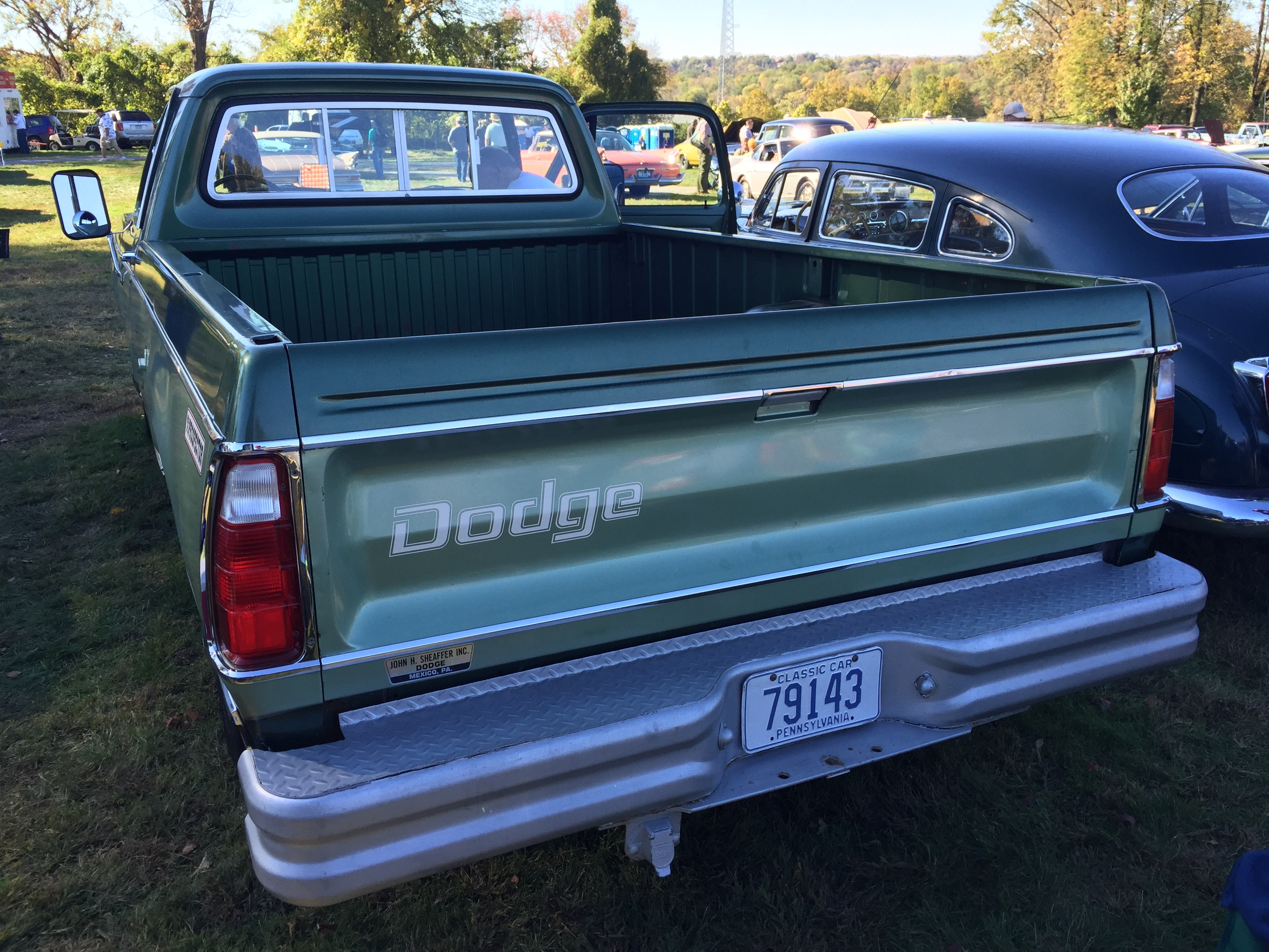 1978 Dodge Adventurer 200. A "Lifestyle" pickup with amenities buyers expected from a passenger car. This Sweptline truck with the Adventurer trim is in factory original condition. It has not been customized, modified, or butchered. Picture taken on the show field of the Antique Automobile Club of America (AACA) 2015 Eastern Regional Fall meet that is held every October in Hershey, Pennsylvania.